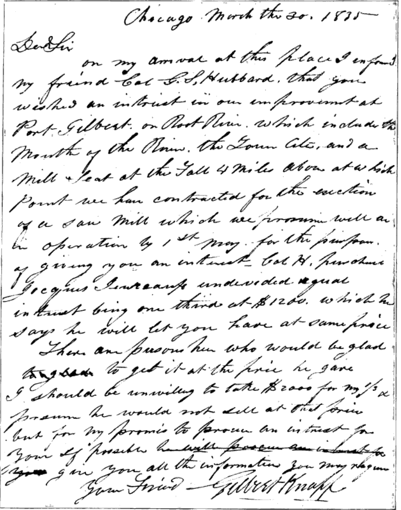 Gilbert Knapp letter to Jacob Barker 1835, Knapp offers Barker a 1/3 stake in their new settlement for $1200